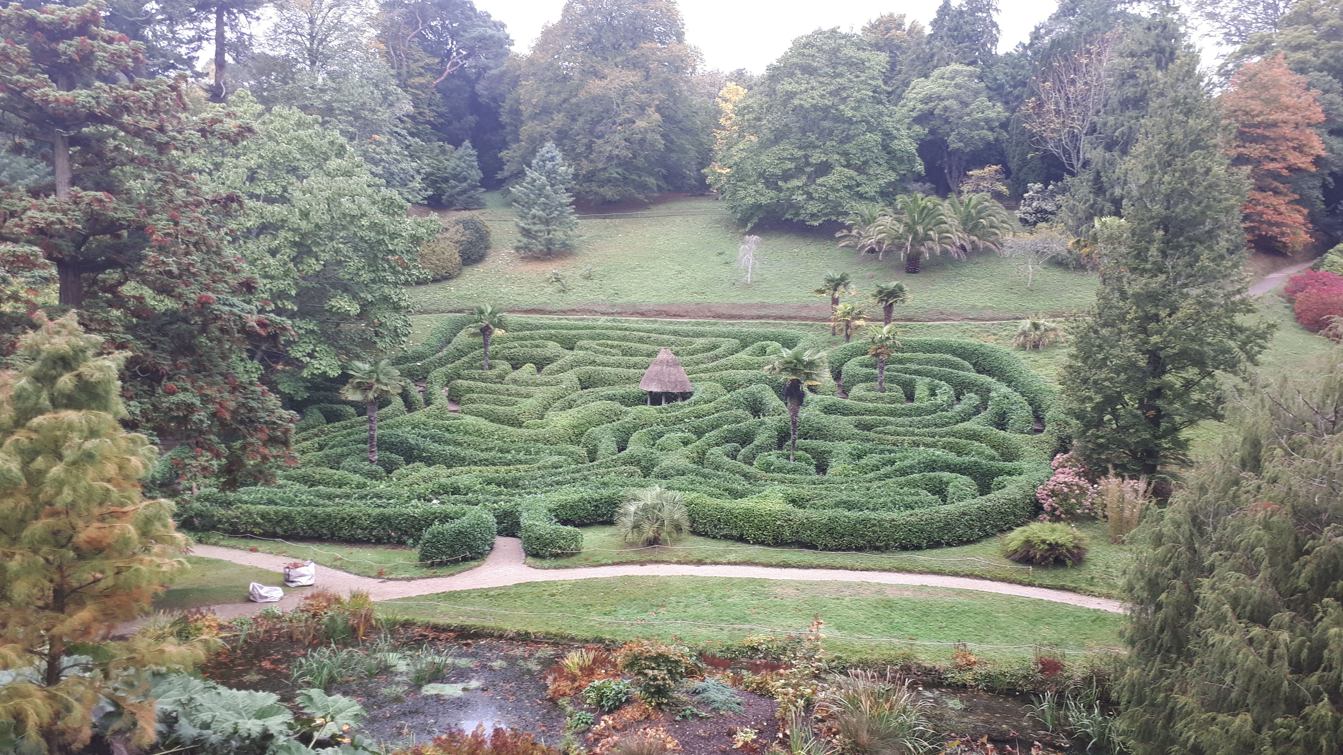 Glendurgan Garden Maze